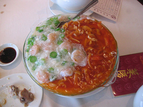 Cantonese Cuisine - Yuan Yang (Fook Kin) Fried RiceCantonese Cuisine - Yuan Yang (Fook Kin) Fried Rice